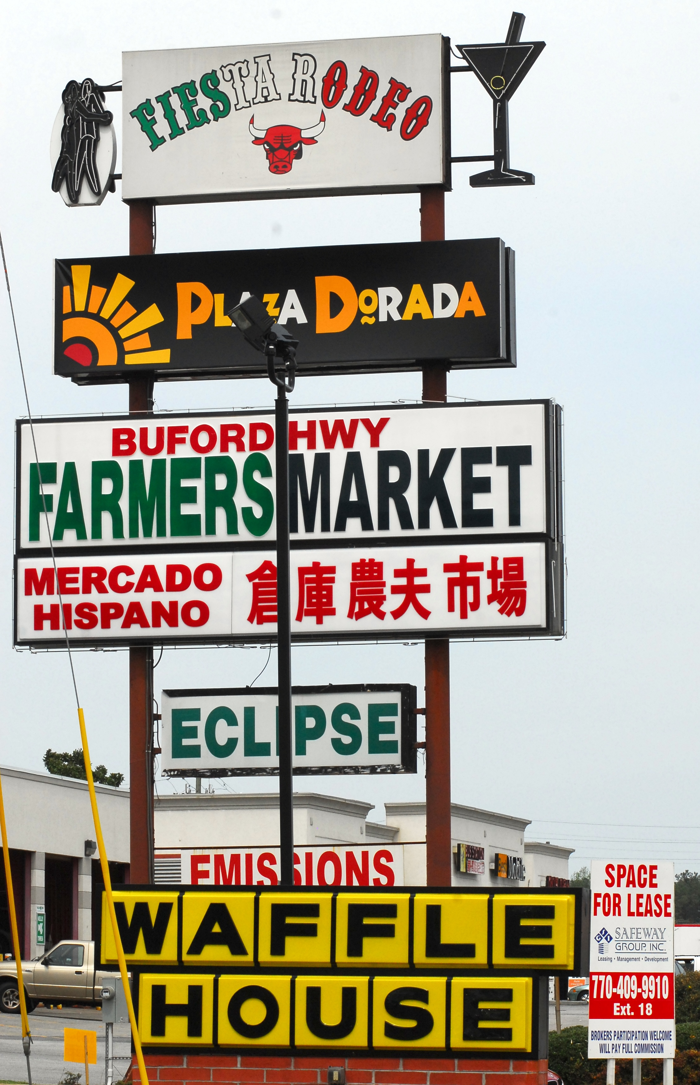 Atlanta's Buford Highway - Atlanta, GA Photo by Kate Medley Spring 2010